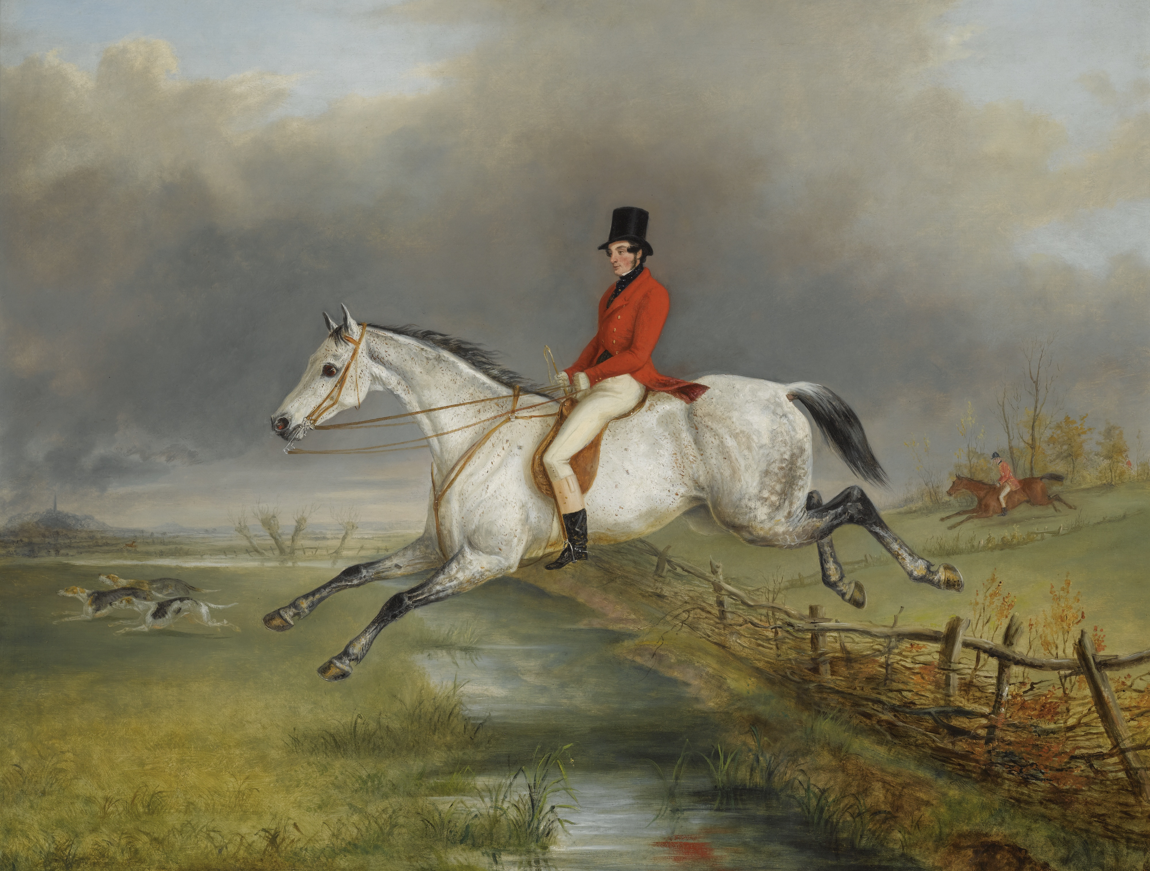 A Master of the Royal Buckhounds Clearing a Fence on a Grey Hunter, oil on canvas painting by George Henry Laporte